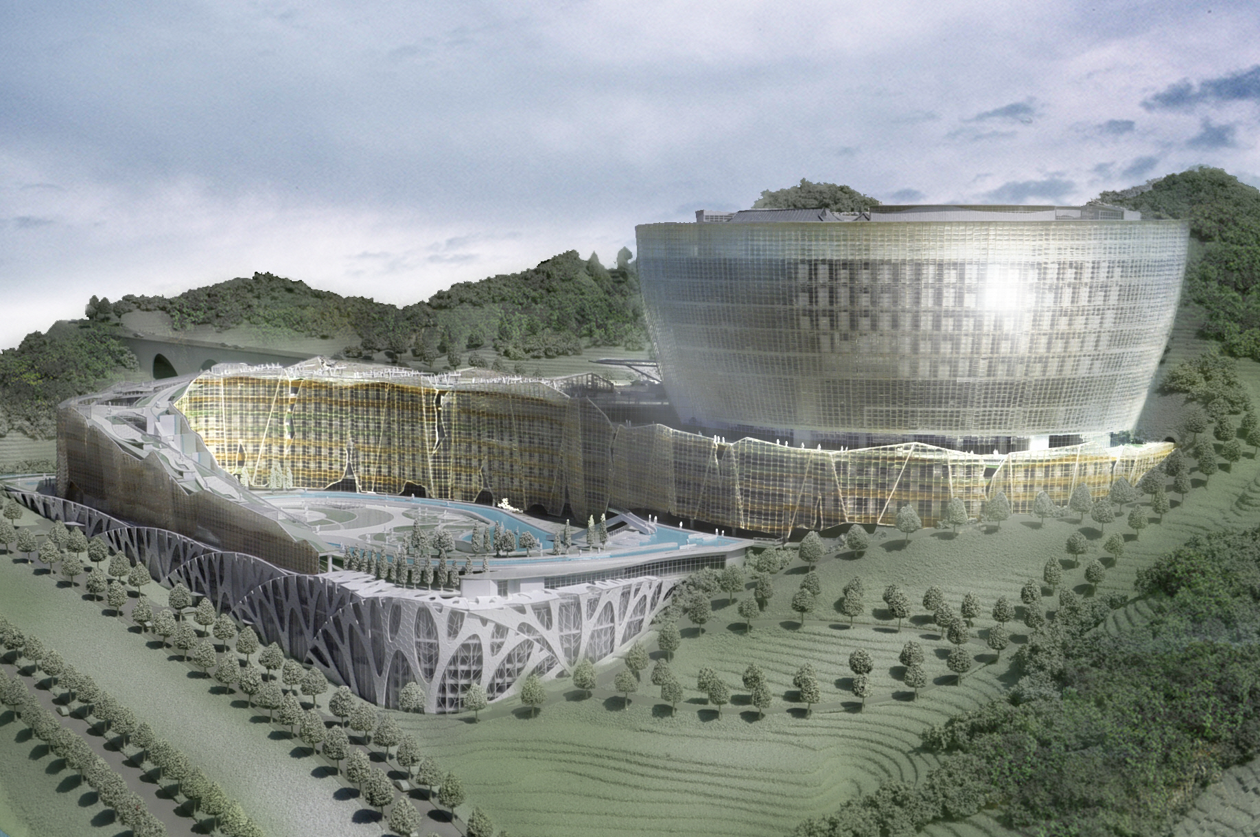 Architectural rendering of Design and Arts Arcadia of Myungseung (DAAM) in Chuncheon, Korea